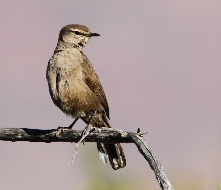 A Karoo Scrub Robin Cercotrichas coryphoeus at Namaqua National Park, South Africa.